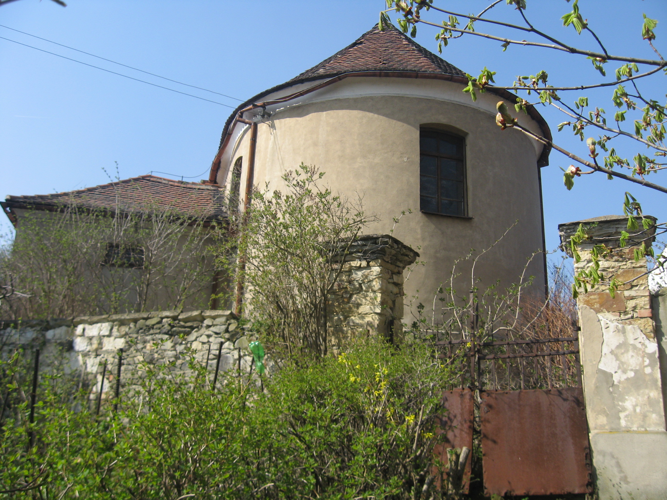 Presbytery of the church of Saint Bartholomew in Lipá